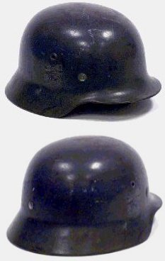 German Stahlhelm (steel helmet) of the Second World War